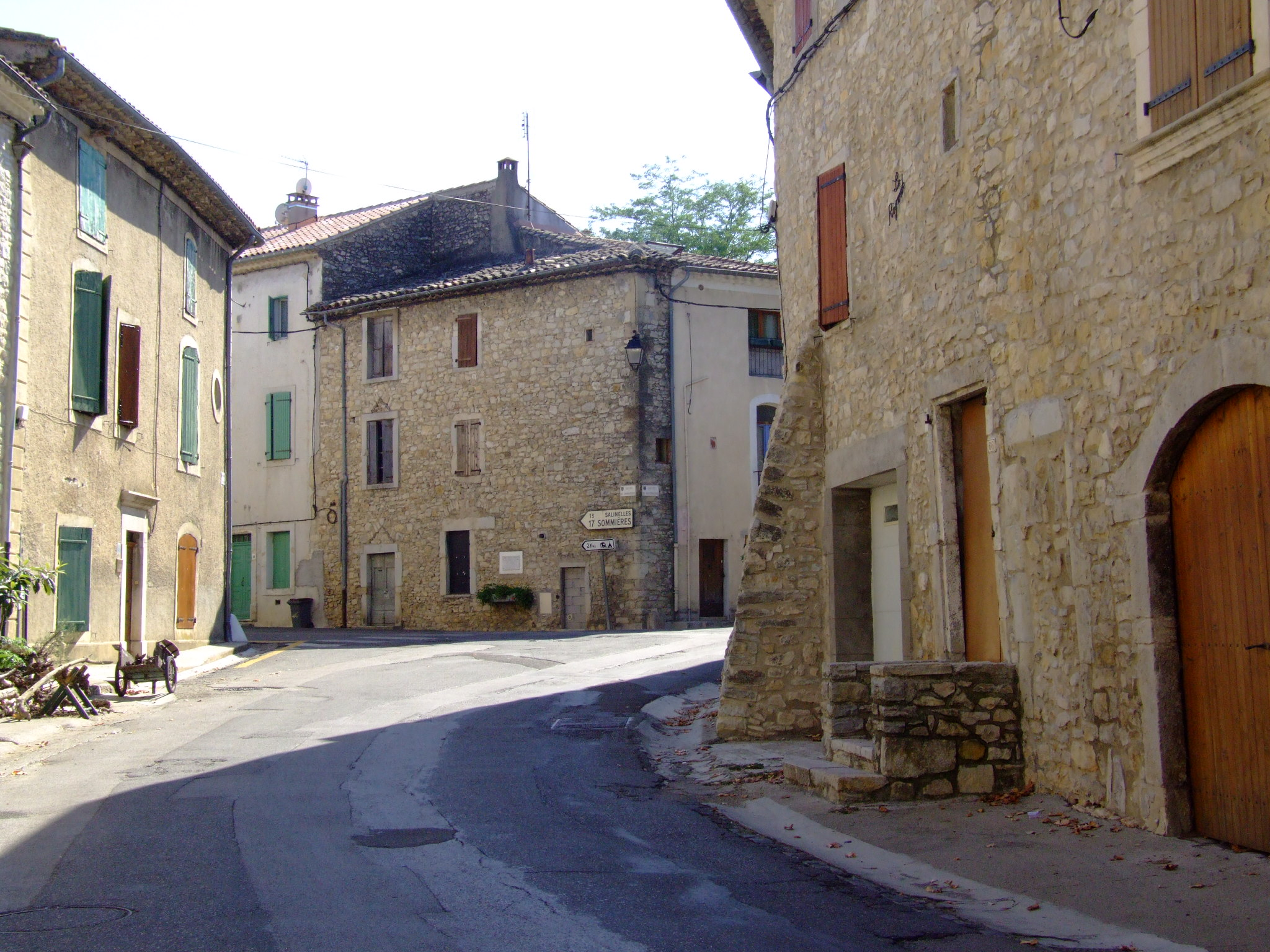 Quissac is village on the banks of the Vidourle in the department of Gard, France, some 20 km north of Sommières.. Faubourg du Pont